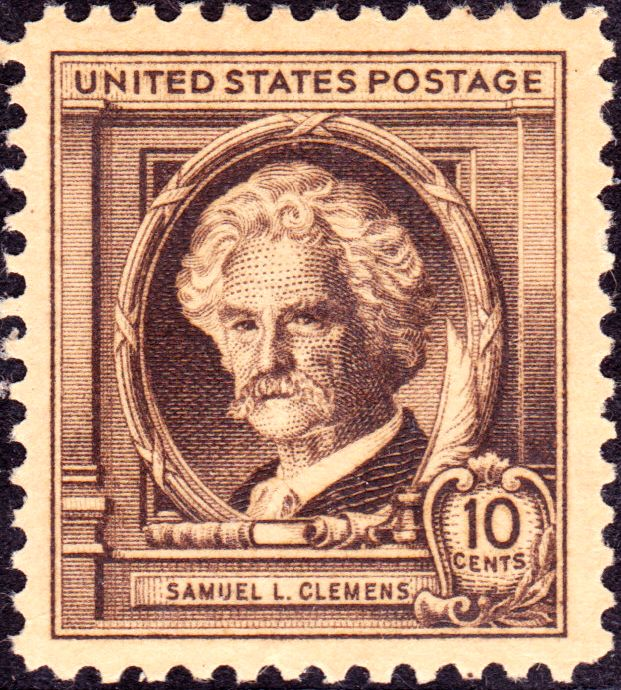 Samuel Clemens (Mark Twain) US Postage stamp — issue of 1940,10c, brown. One of the "Famous American" commemorative issues of 1940.